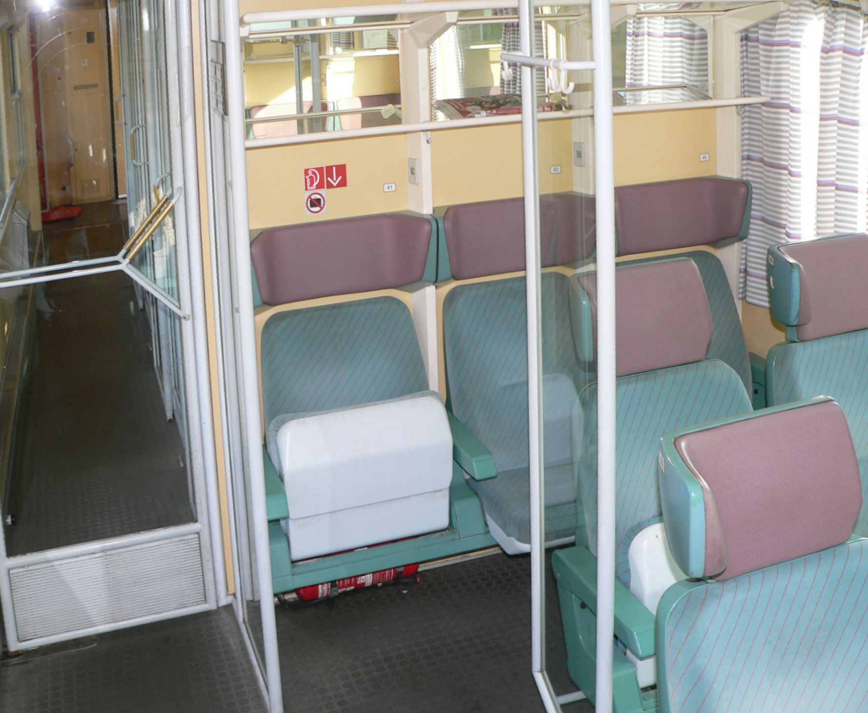 Interior of a Interregio rail car, Deutsche Bahn, Germany